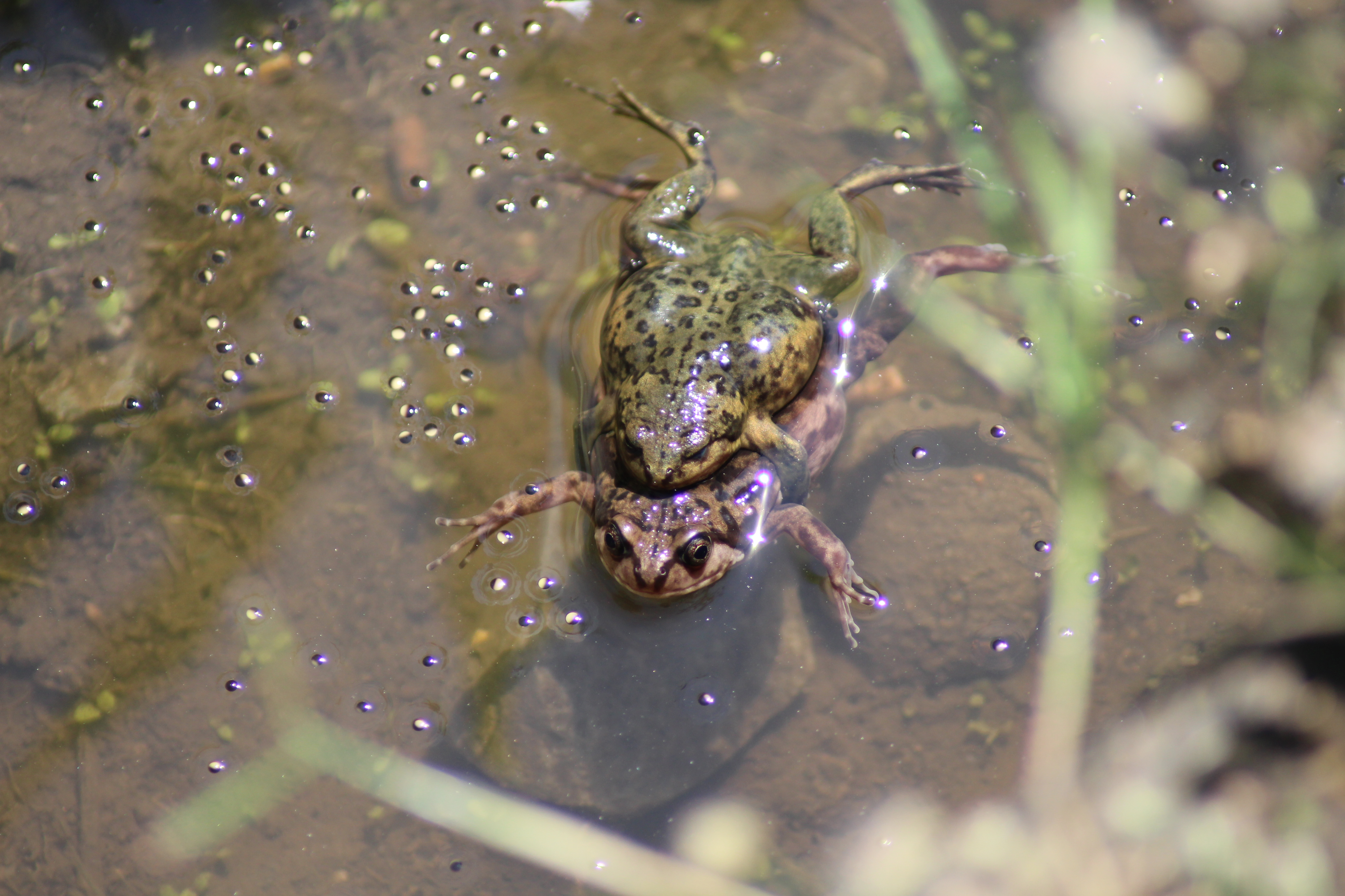 K. rugifera is not reported from Dali, but comparing calls and colouring, This is a mating couple of them. Found in a roadside ditch next to a paddy field. Dali, Yunnan.